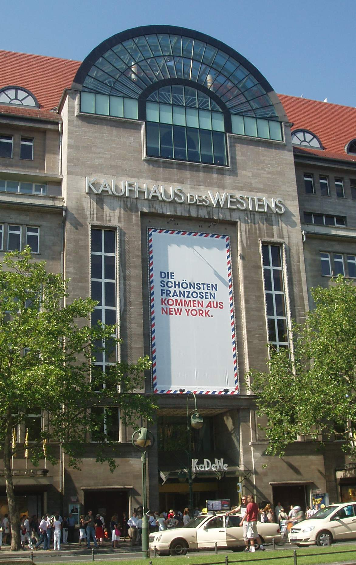 Berlin - main entrance of the Kaufhaus des Westens (KaDeWe)